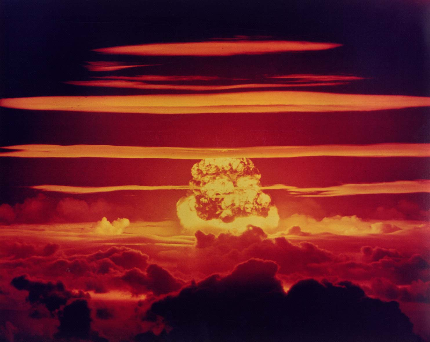 Nuclear weapon test Dakota (yield 1.1 Mt) on Enewetak Atoll.